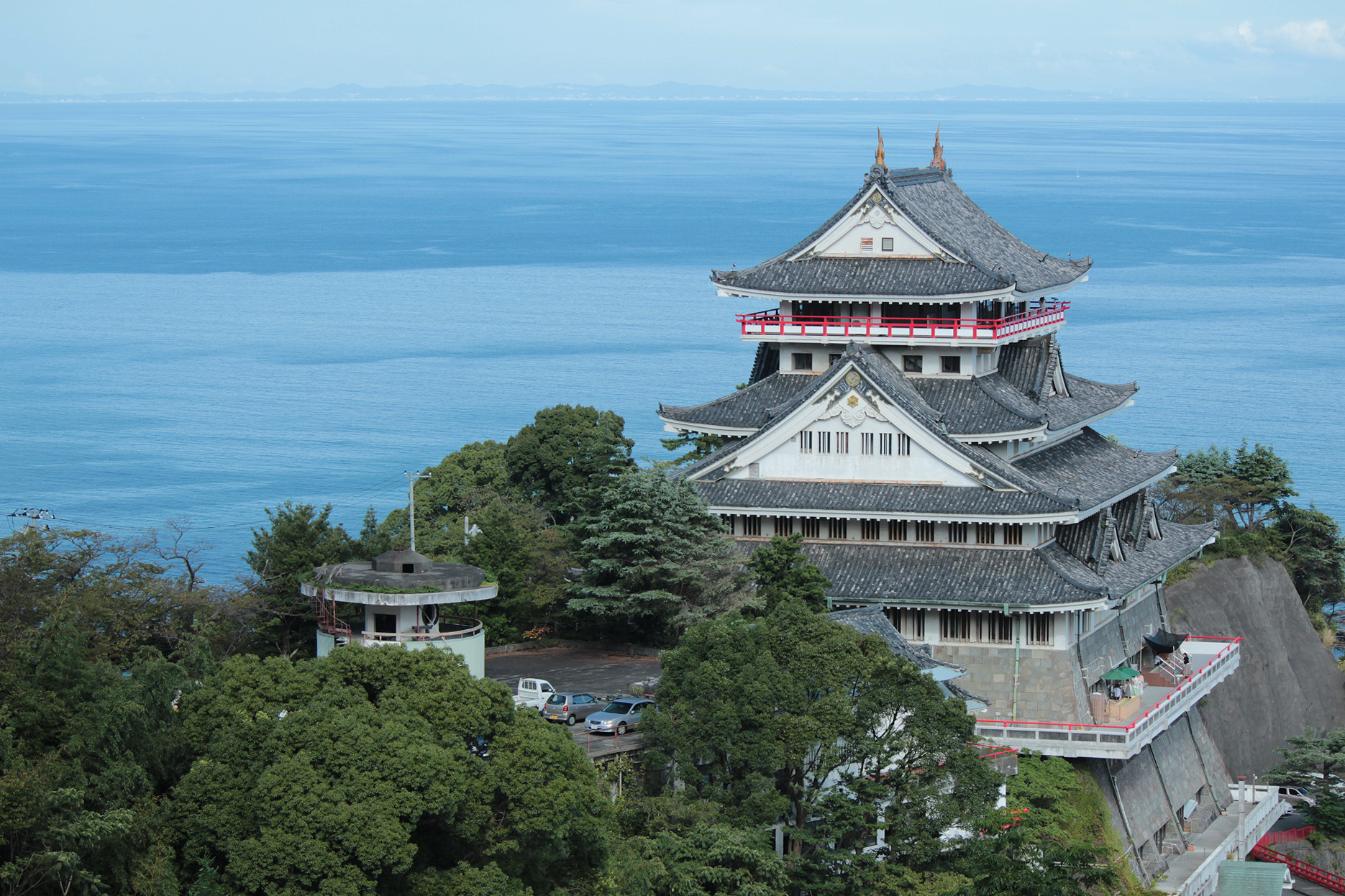 Atami Castle as seen fromm the WSW in Atami, Shizuoka Prefecture.